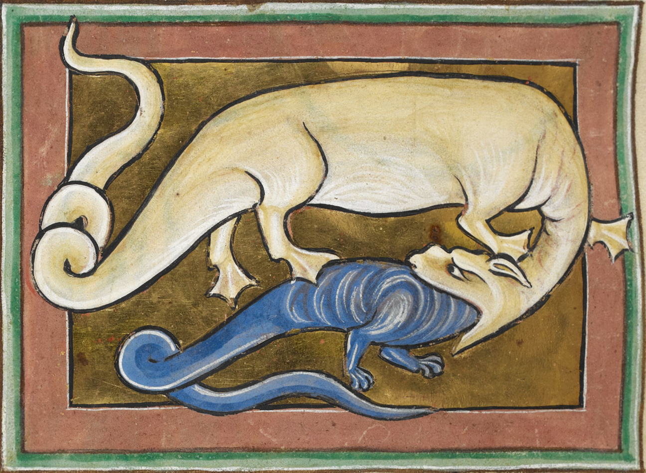 Hydrus- Bestiary, Royal MS 12 C XIX; 1200-1210